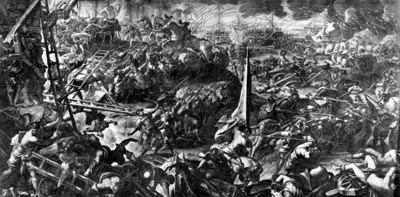 Battle of Zadar